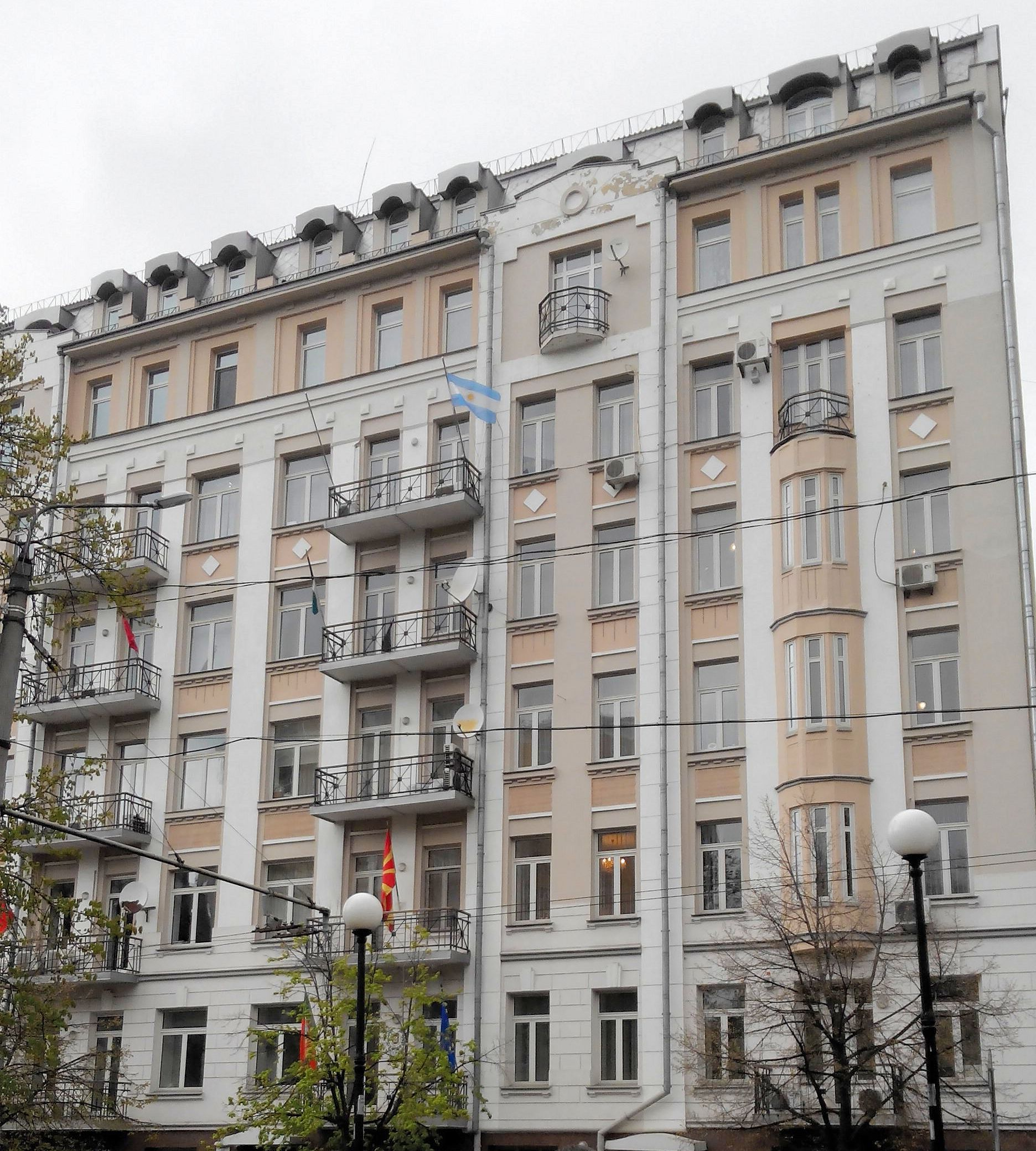 Embassies Ivana Fedorova 12 in Kyiv (Ukraine)